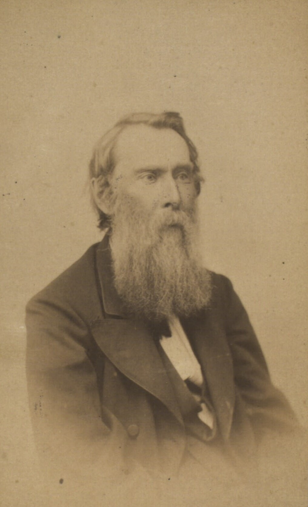 August Plum (1815-1876), Danish painter